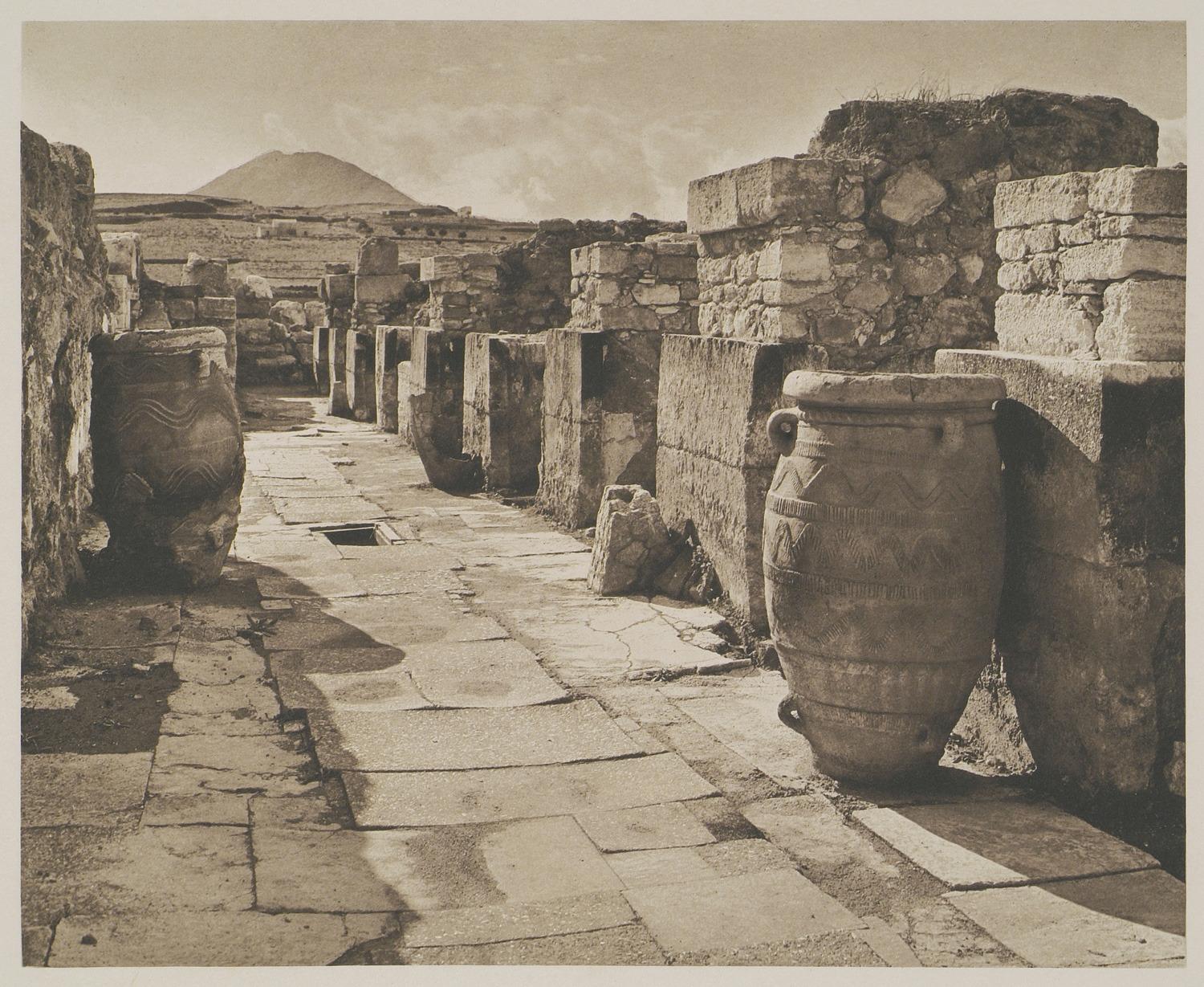 Frederic Daniel Boissonnas Baud-Bovy. Des Cyclades en Crète au gré du vent, Geneva, Boissonnas & Co, 1919.